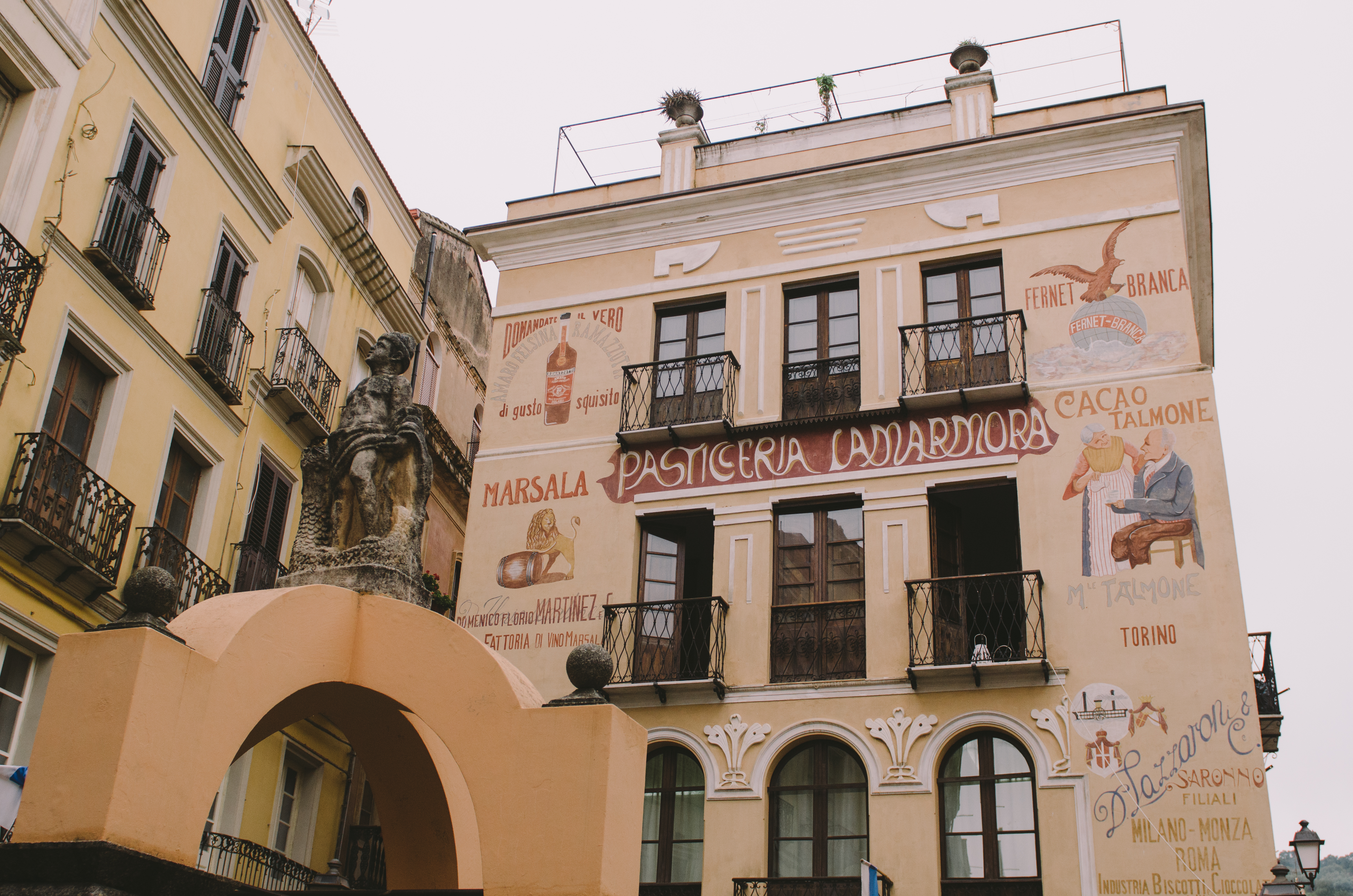 Piazza La Marmora Iglesias, Sardinia,Italy